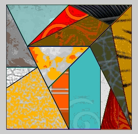 Stomachion (Ostomachion) dissection puzzle. Used to illustrate Archimedes.